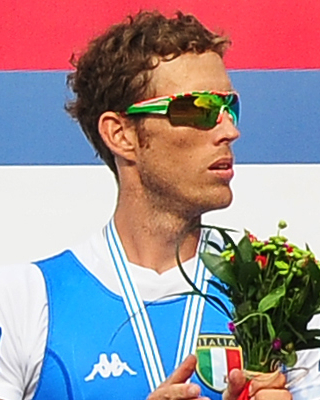 Martino Goretti at the 2013 World Rowing Championships